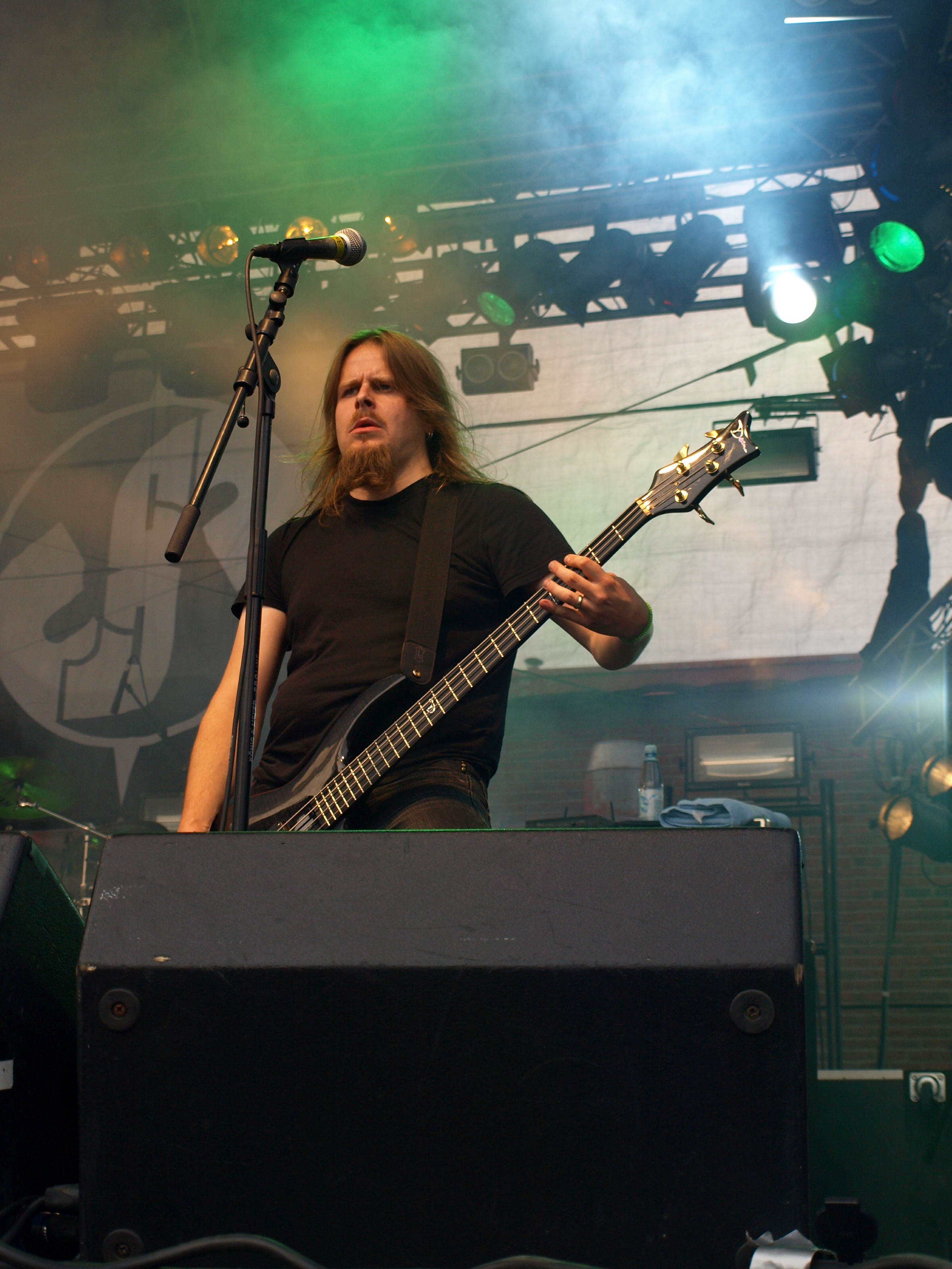 Finnish metal band Sotajumala live at Jalometalli 2008 in Oulu.